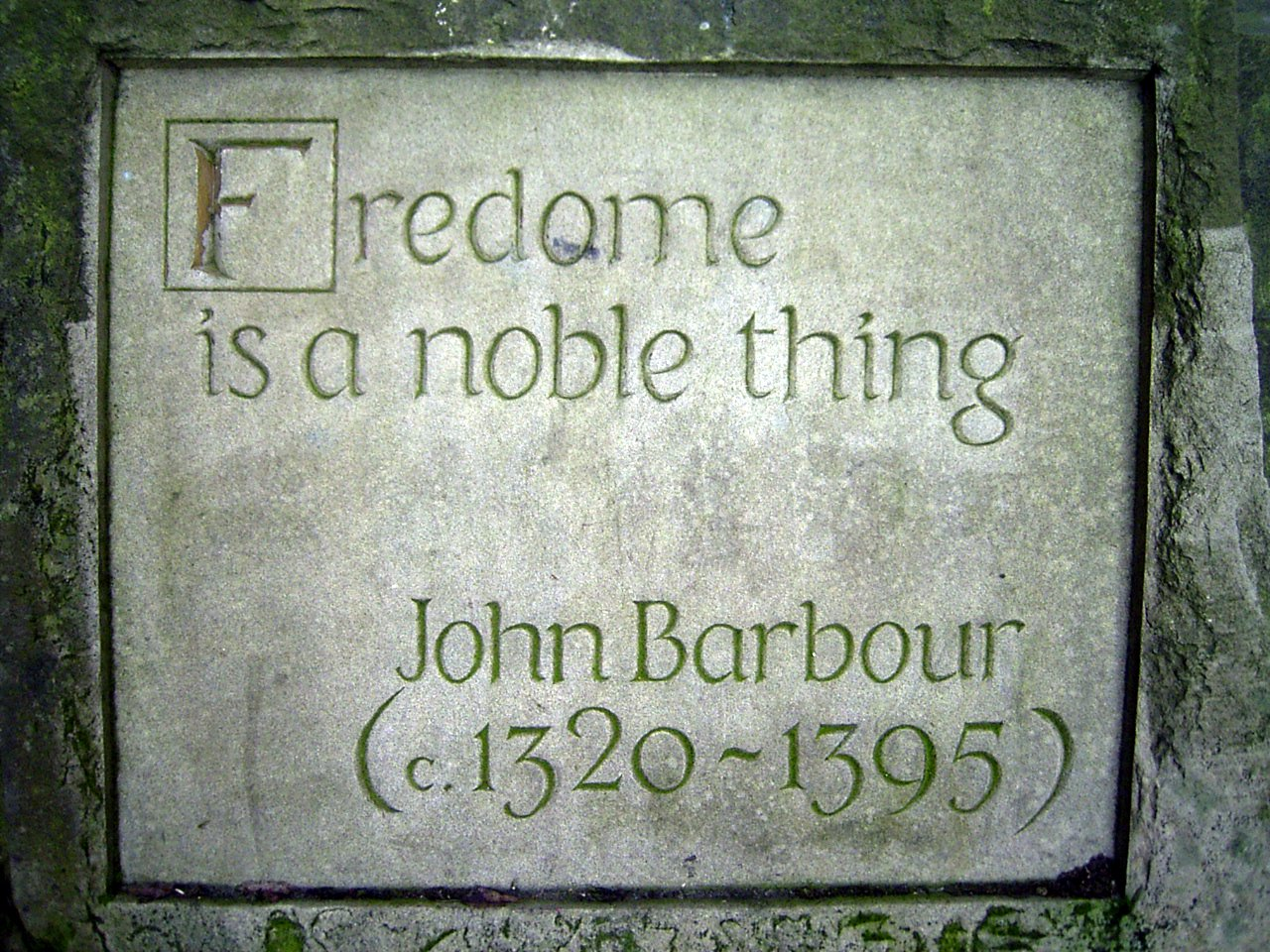 Edinburgh Image of John Barbour quote